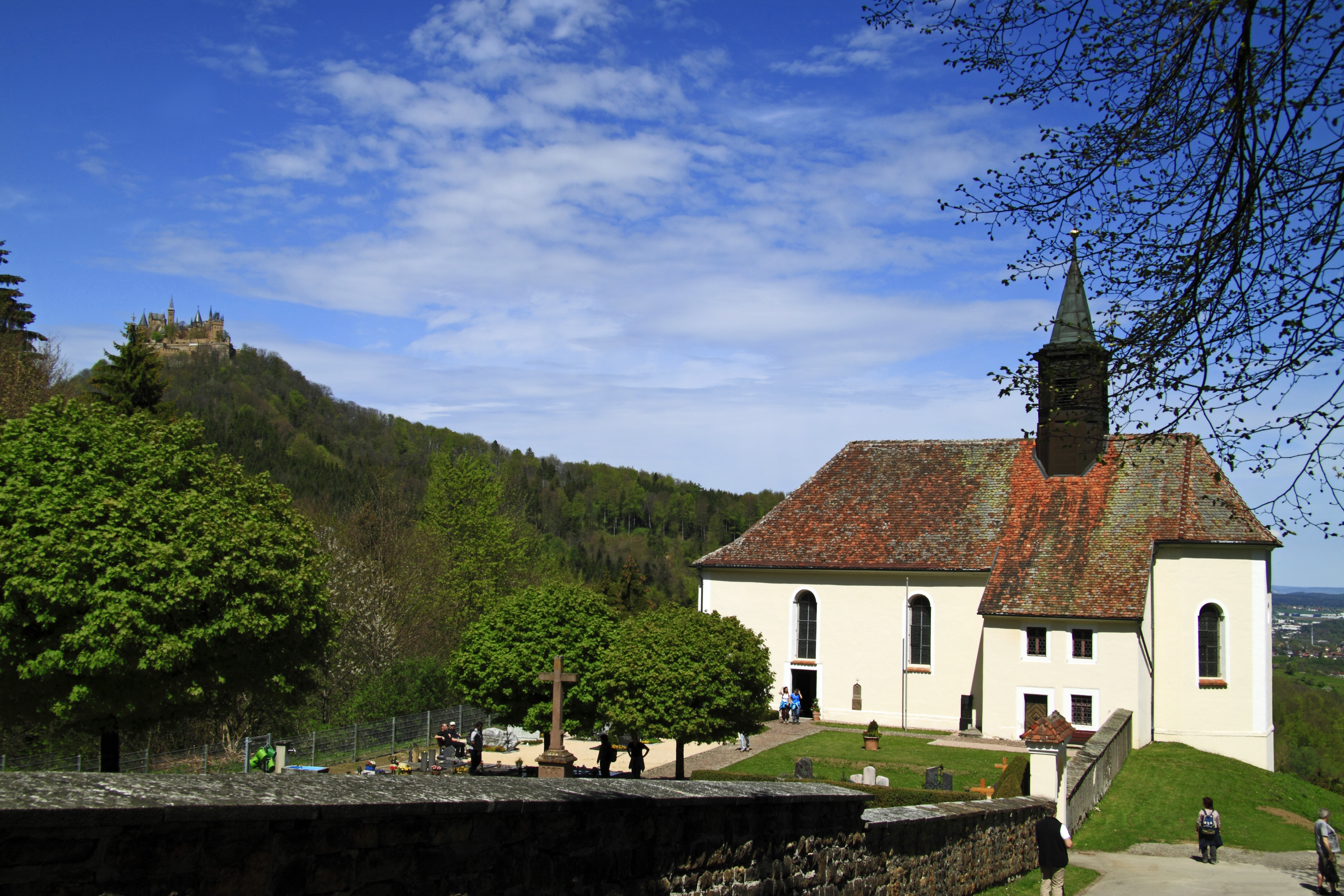 pilgrimage church Maria Zell close to Hechingen-Boll with Hohenzollern Castle, Zollernalbkreis Germany